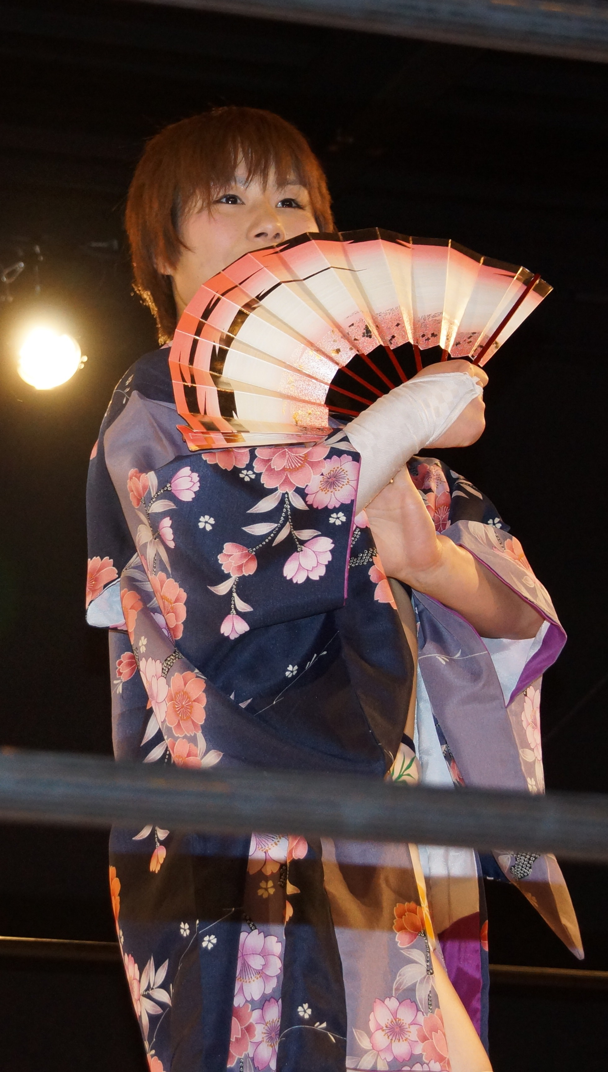 Professional wrestler Maki Narumiya at an Ice Ribbon event.